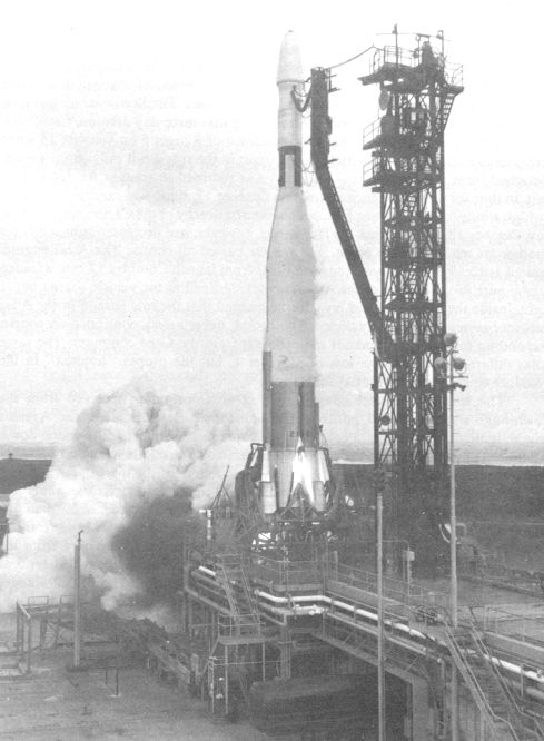 Ranger 5 lifted off from launch Complex 12 into a leaden sky. The roar of the Atlas engines subsided as the vehicle soared out of sight. Inside the JPL command post, mission controllers learned that the rate beacon in the Atlas guidance system had malfunctioned. The rocket, nevertheless, continued on course, responding to backup commands radioed to it from the Cape computer. The same Atlas failure had caused the loss of Mariner 1, but the proper "hyphen" in the guidance equations saved the day for Ranger. A few hours later a malfunction caused the spacecraft to switch to battery power. The batteries were drained within eight hours, leaving the spacecraft blind and deaf. It tumbled past the Moon and ended up in a heliocentric orbit.